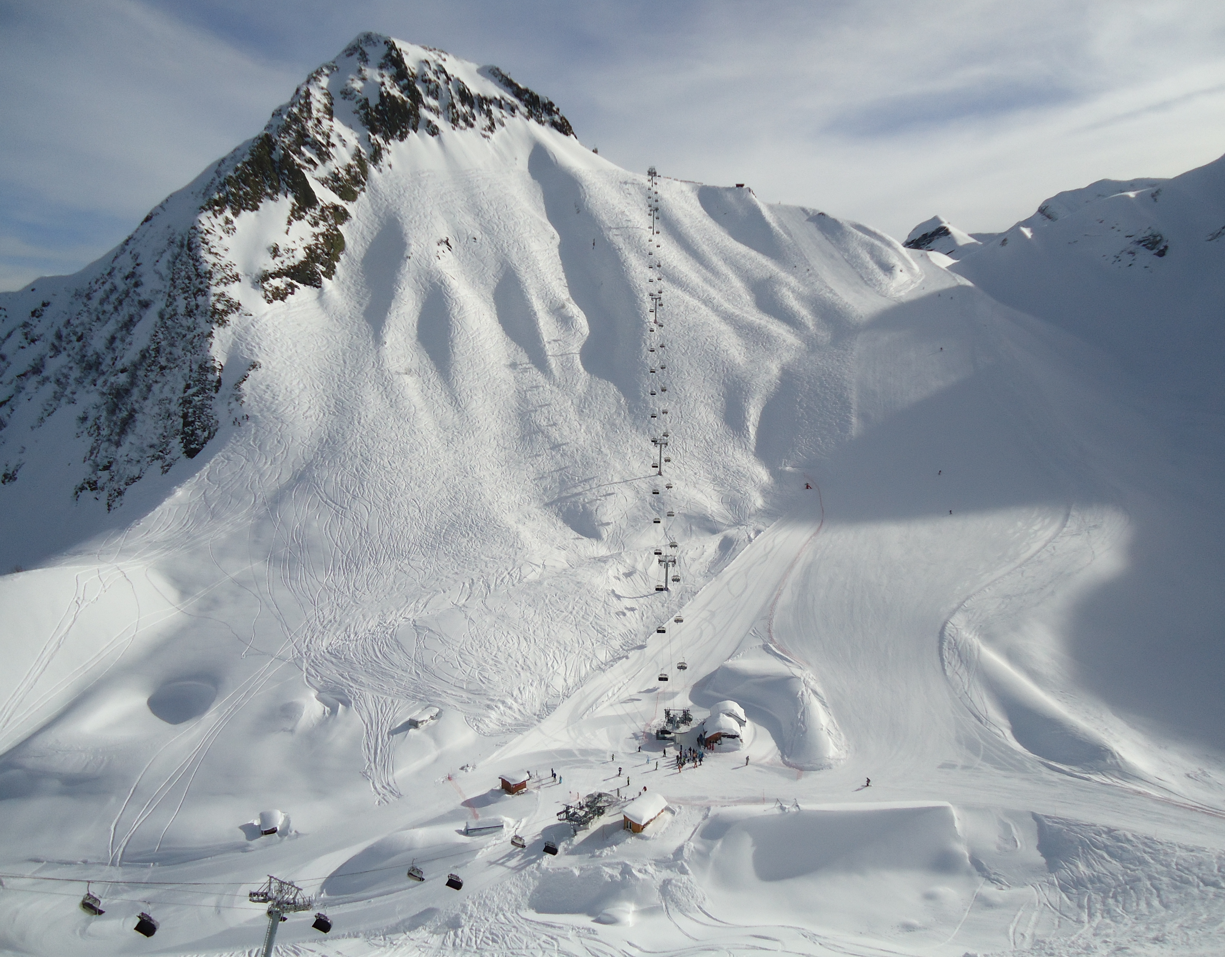 Ski area Gornaya Karusel in Krasnaya Polyana near Sochi